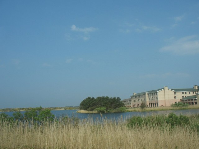 The reedy shores of Llyn Penrhyn, Anglesey.